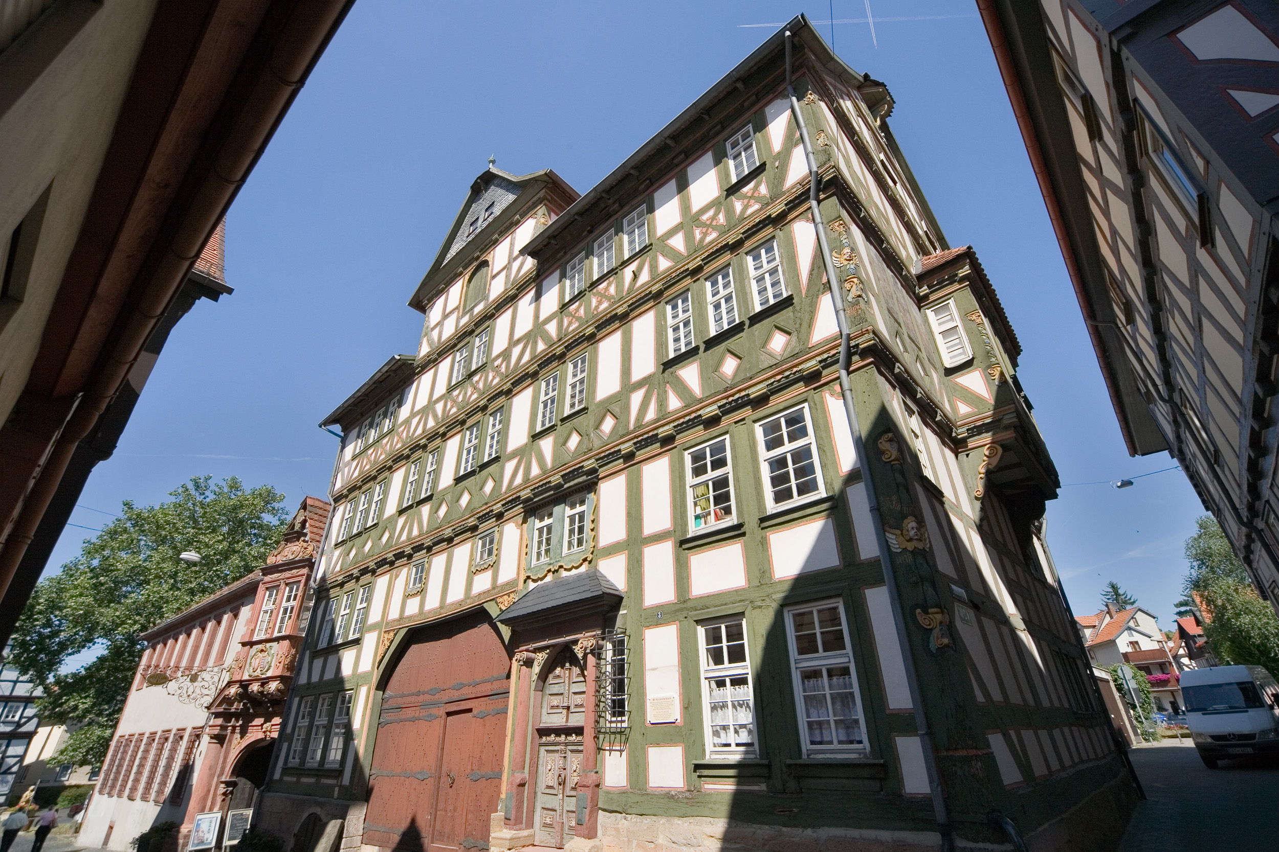 Alsfeld: Neurath's house, facade at the Rittergasse (Knight's alley)